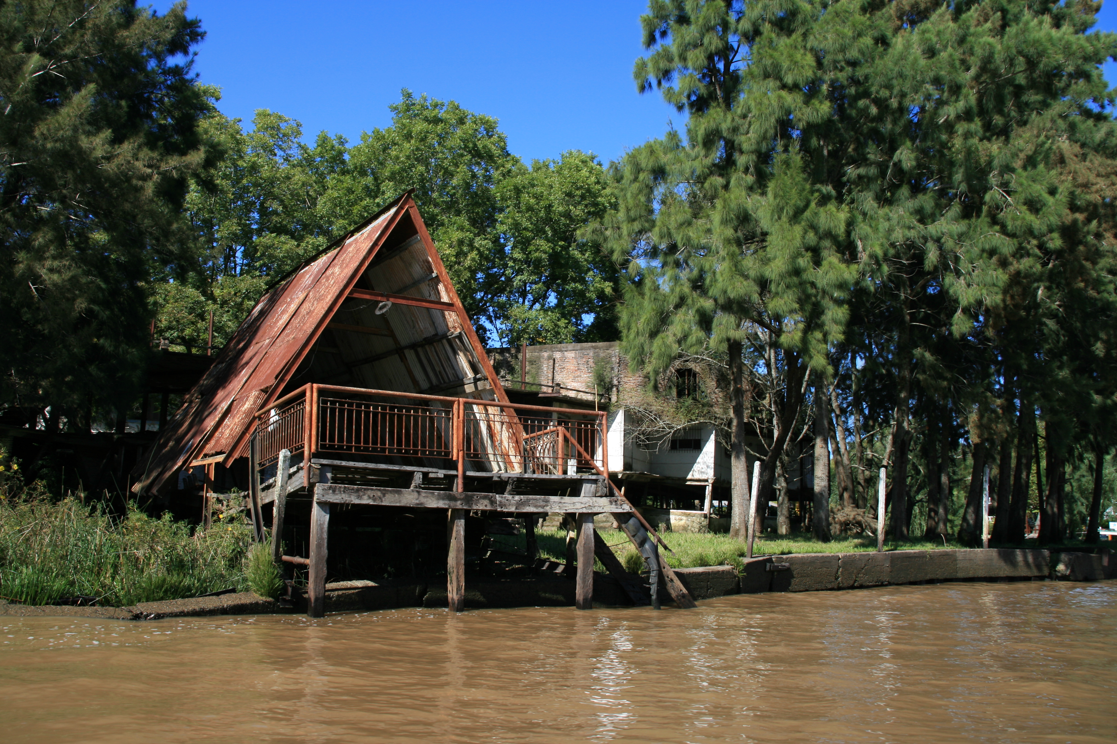 Boat dock-shed and house in the Lower Delta of the Paraná River, Tigre, province of Buenos Aires, Argentina.